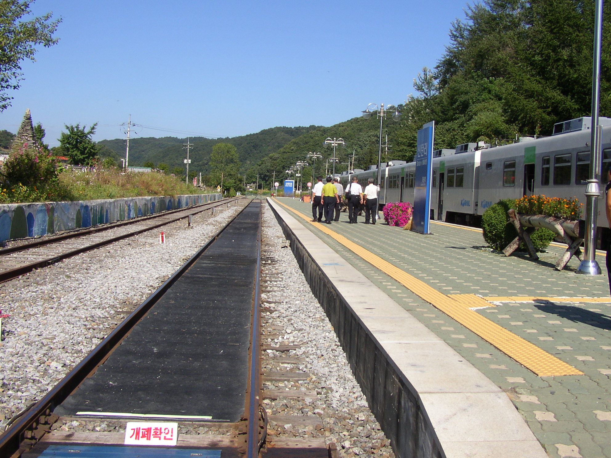 Sintan-ri Station (Gyeongwon Line, The Northernmost Station in South Korea)